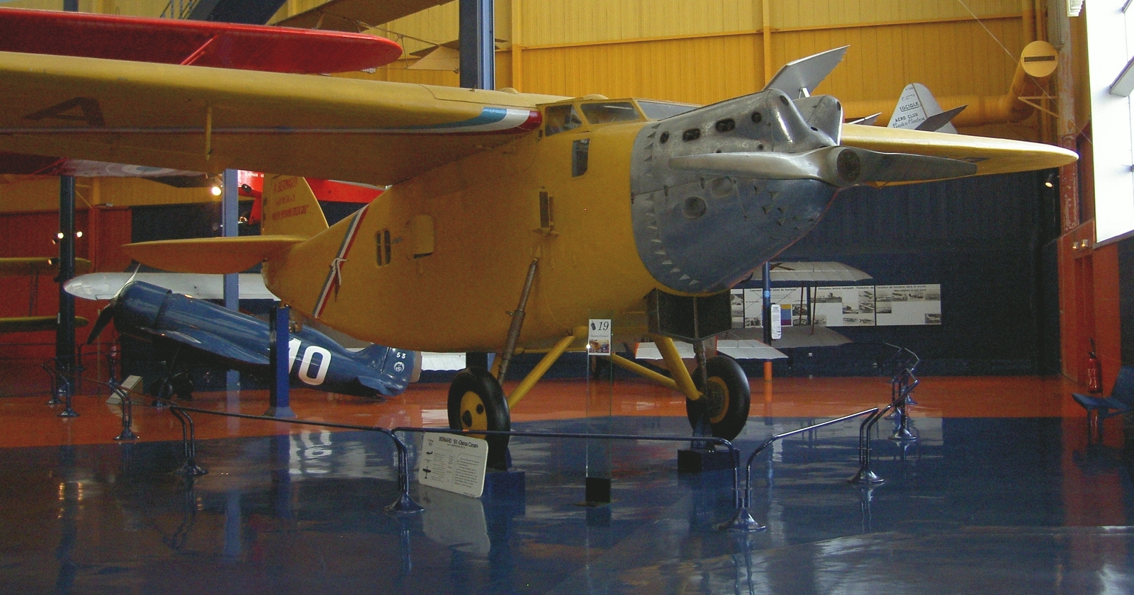 French airplane (Bernard 191 GR "Oiseau Canari")